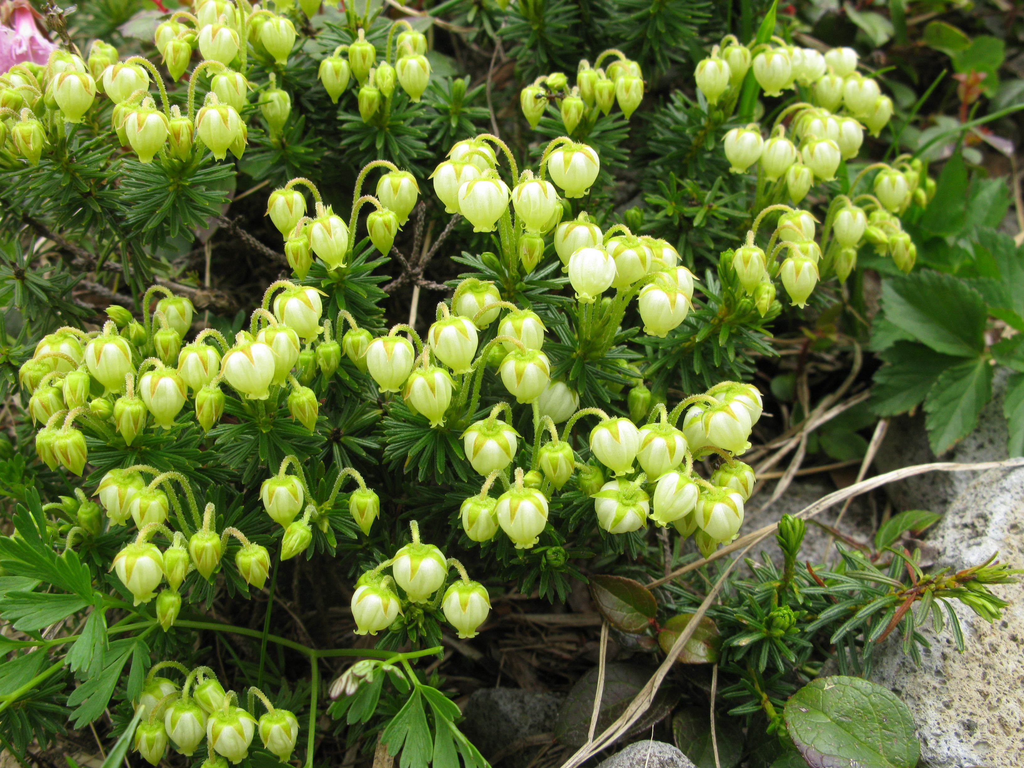 Phyllodoce aleutica, Mount Gassan, Yamagata pref., Japan